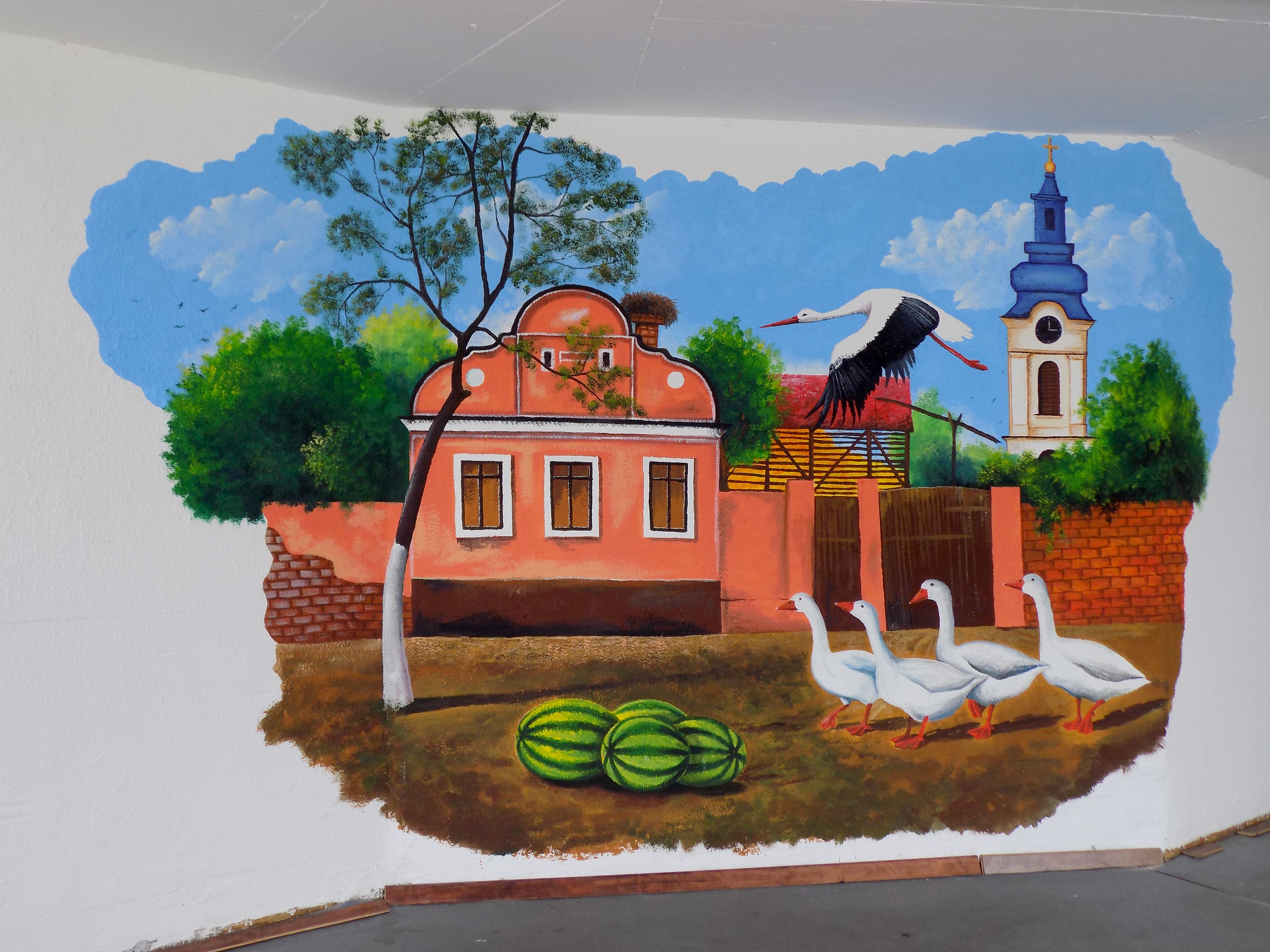 Memorial complex of Mihajlo Pupin - Mural on the wall in the House of Culture, a gift from the members of the Gallery of Naive Art in Kovačica